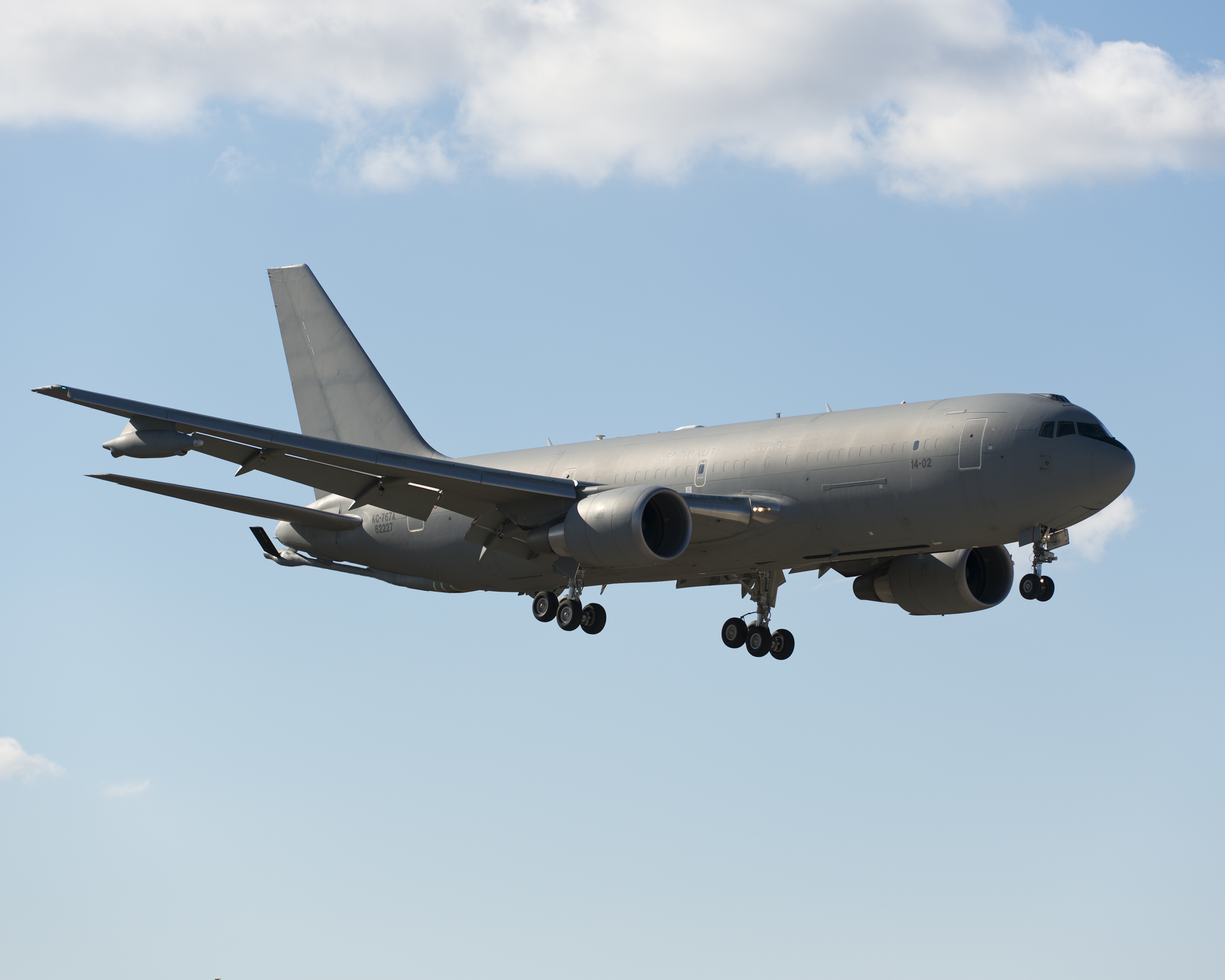 160205-O-ZZ999-912 NAS Patuxent River (February 5, 2016) An Italian Air Force (Aeronautica Militare) KC-767 aerial refueling tanker lands at Naval Air Station (NAS) Patuxent River, Md., on Feb. 5. The tanker had refueled an Italian Air Force F-35A Lightning II aircraft during a two-phase, 11-hour deployment across the North Atlantic from Cameri Air Base, Italy to NAS Patuxent River. The next generation stealth F-35 jet, known as aircraft AL-1, landed in the history books as it completed the very first F-35 trans-Atlantic Ocean crossing. (U.S. Navy photo courtesy Andy Wolfe/Released)